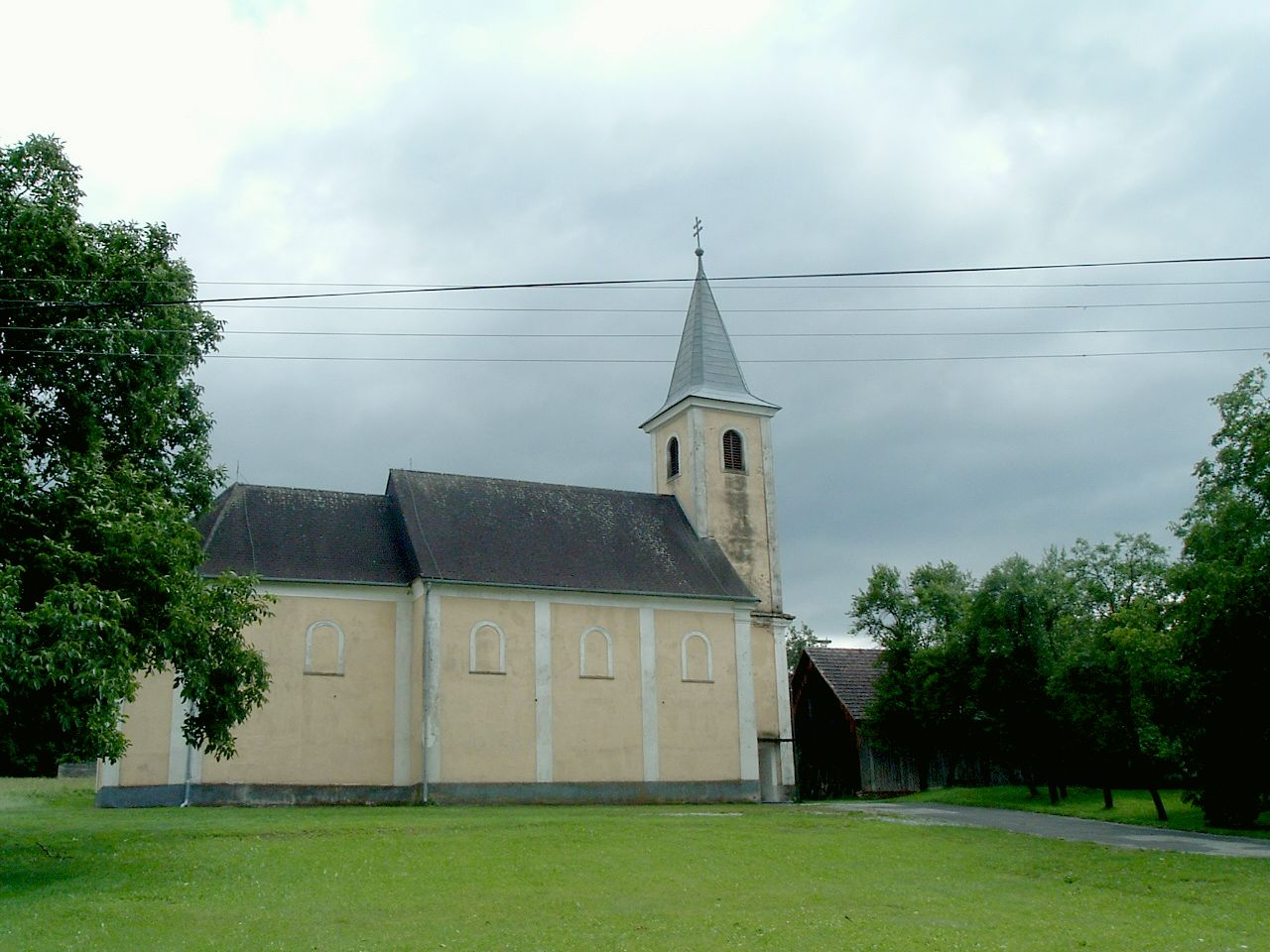 Sankt Kathrein im Burgenland (Pósaszentkatalin), church